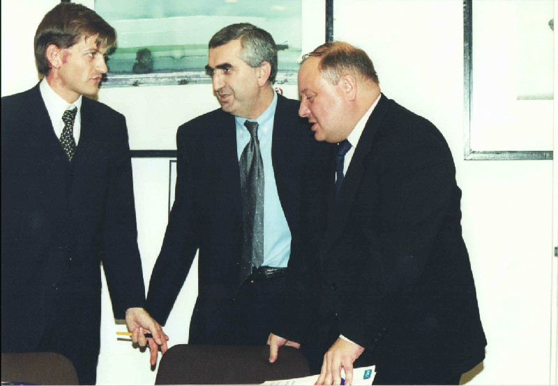 На одной из встреч. С Егором Гайдаром